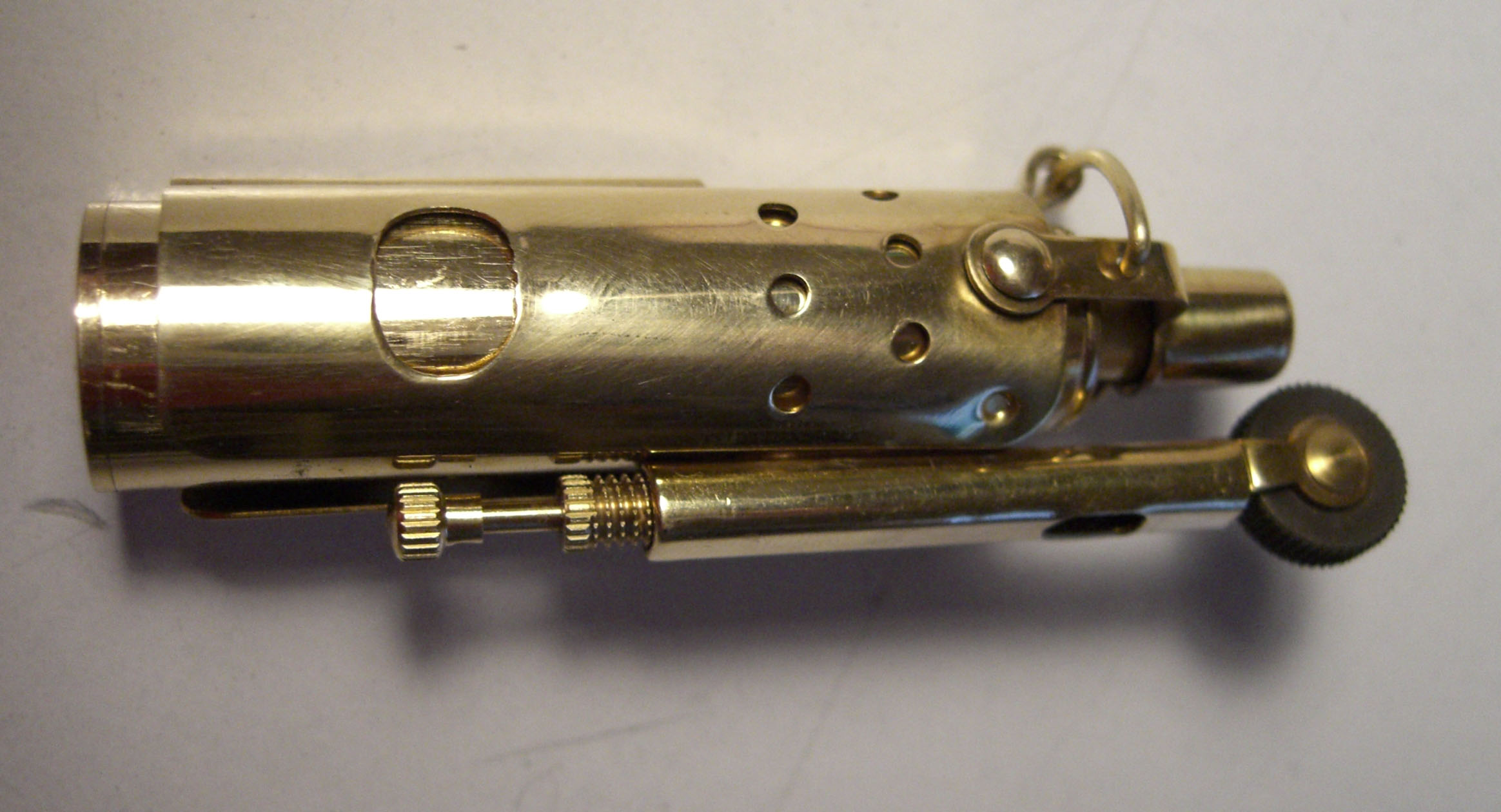 French Gasoline Lighter in use during the WWI.